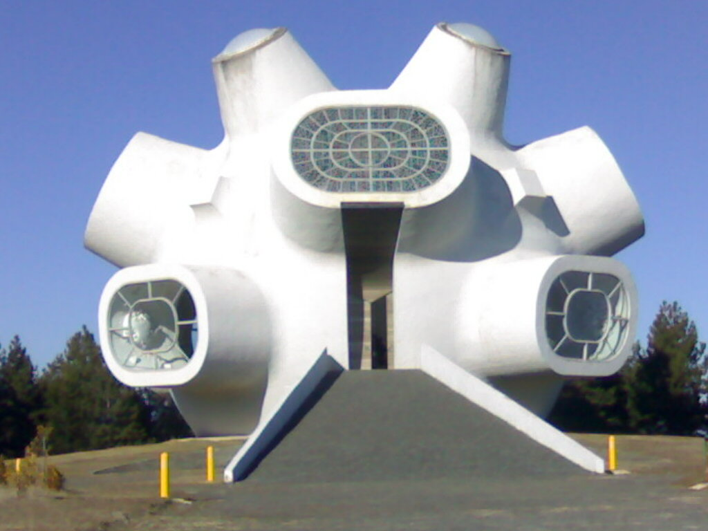 The 'Makedonium' monument.